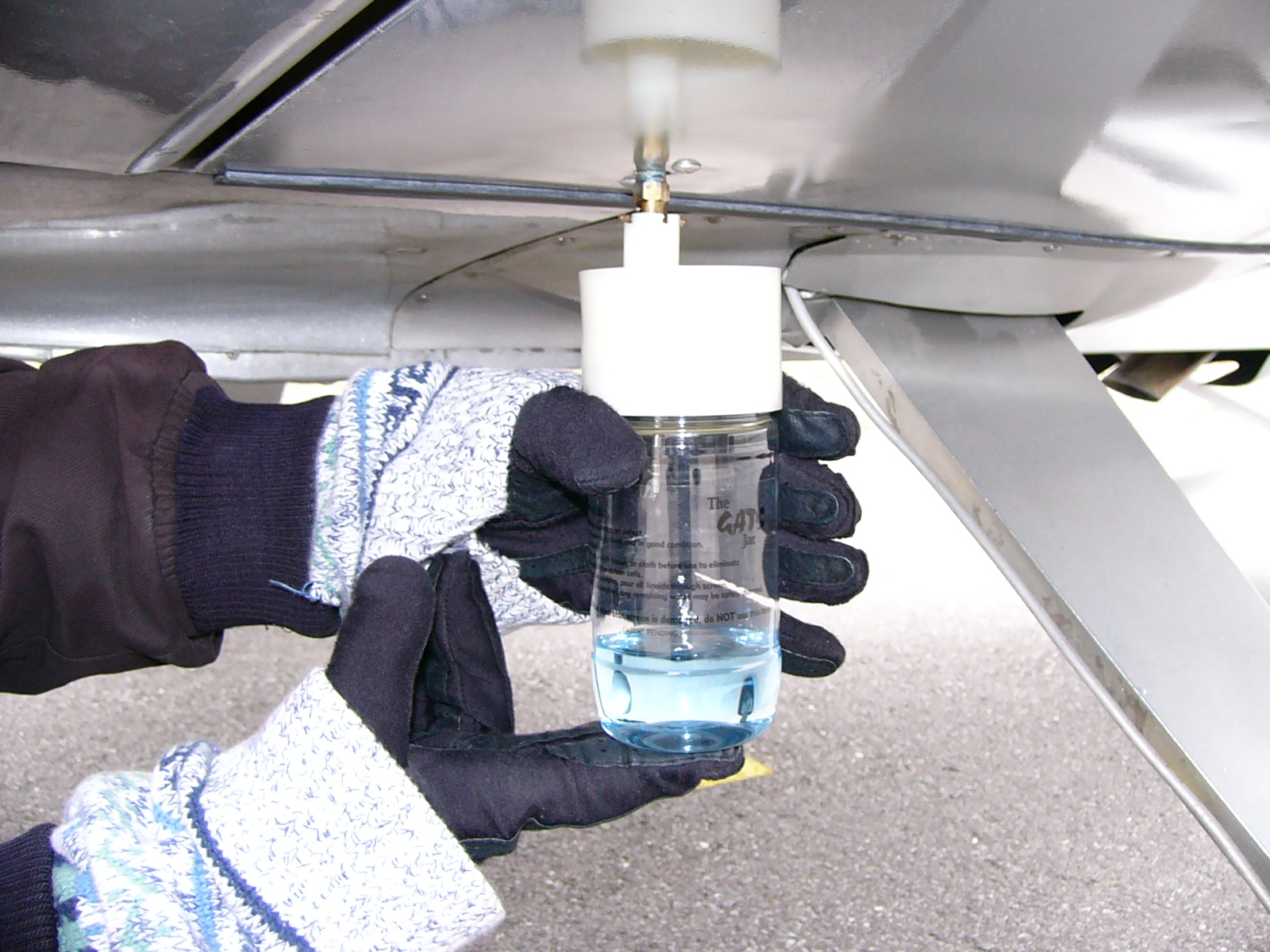 Taking a fuel sample from an American Aviation AA-1 Yankee under-wing drain using a GATS Jar fuel sampler